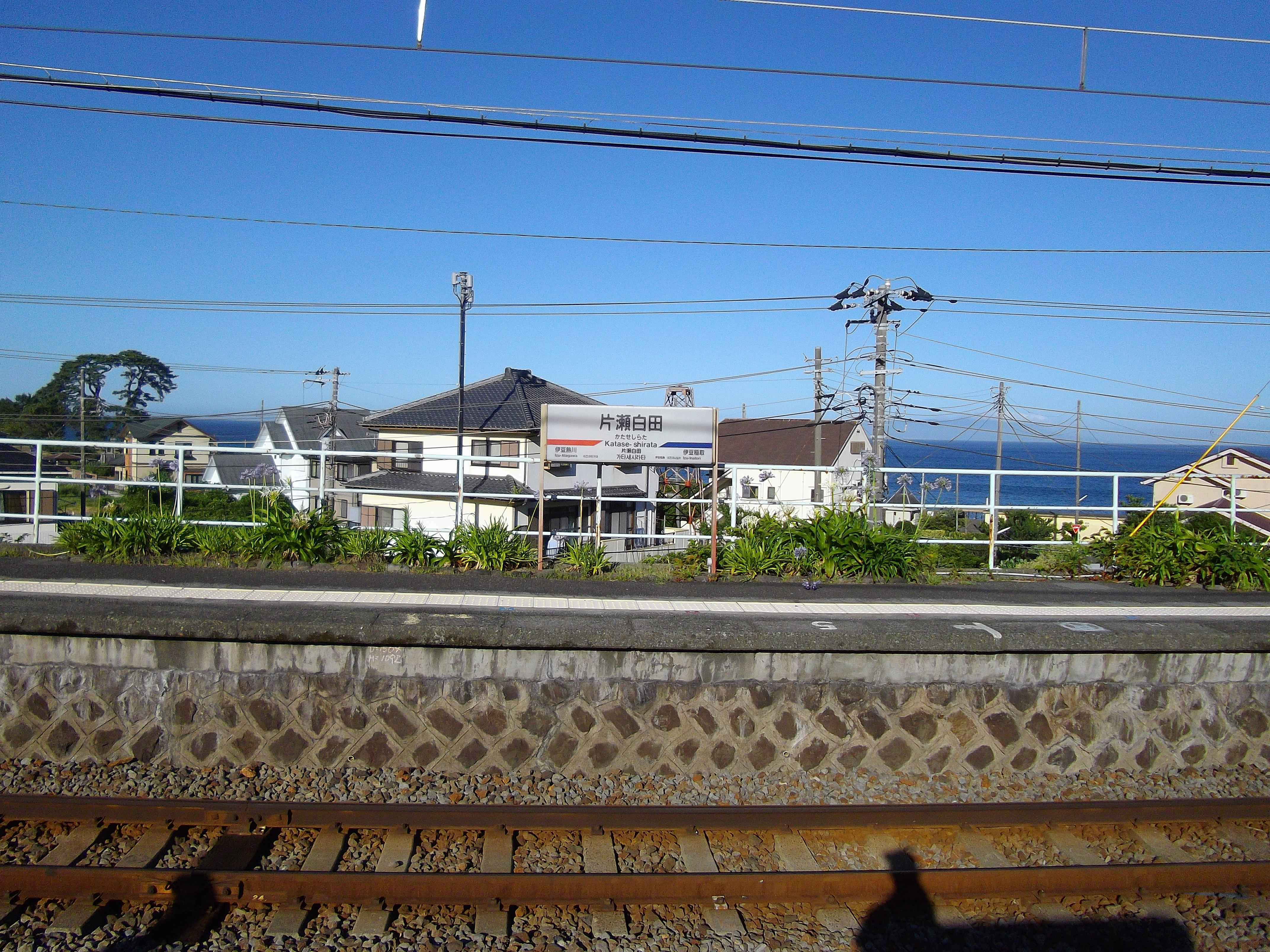 Platform of Katase-shirata Station on the Izu Kyuko Line, Higashiizu town, Shizuoka prefecture, Japan.